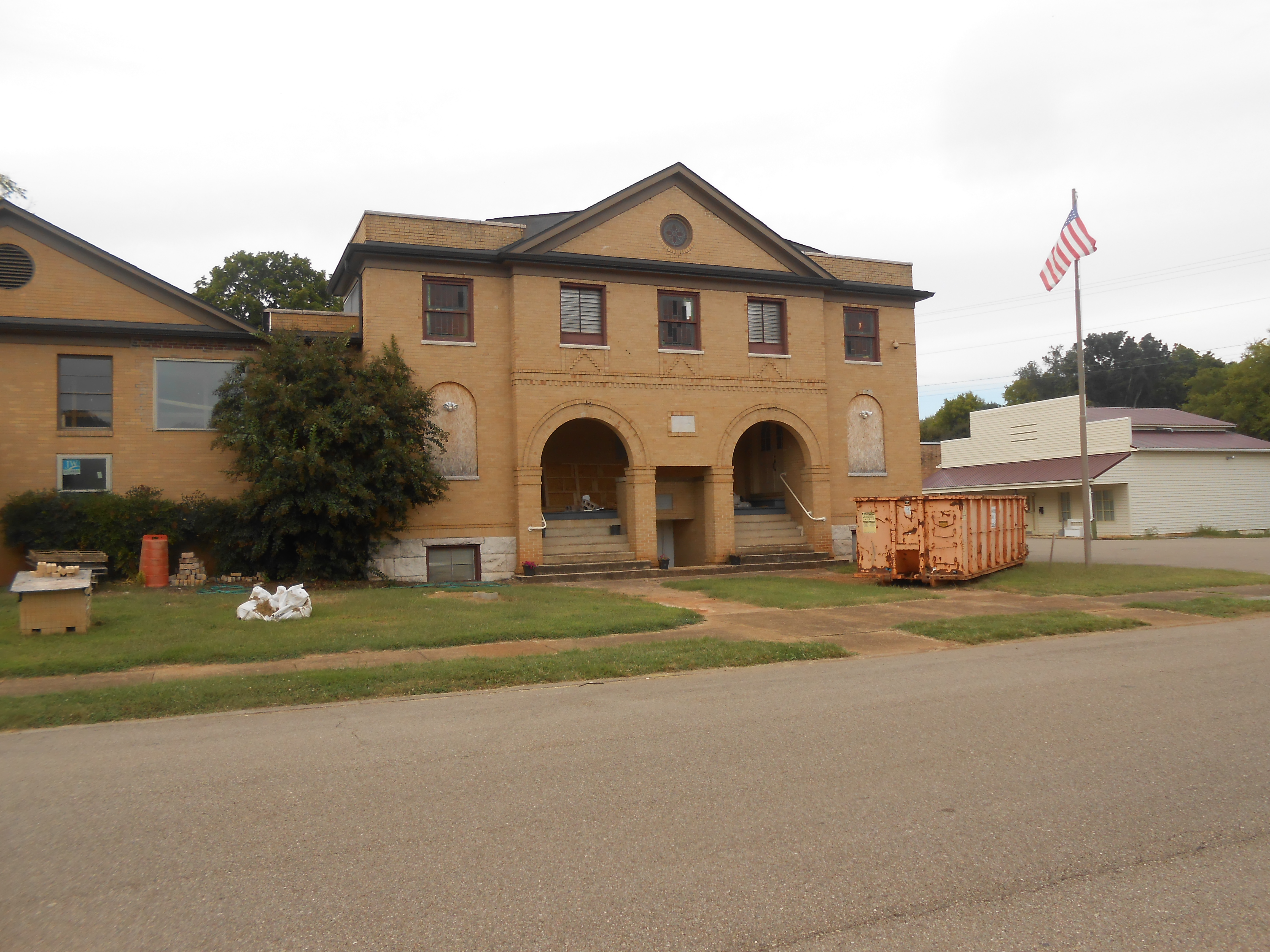 former Concord Baptist Church (now on Kingston Pike in Farragut)